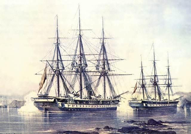 Spanish screw frigates Blanca and Villa de Madrid during Naval Battle of Abtao (1866), Spanish Naval Museum, Madrid. Painted by Federico Castellón Martinez.